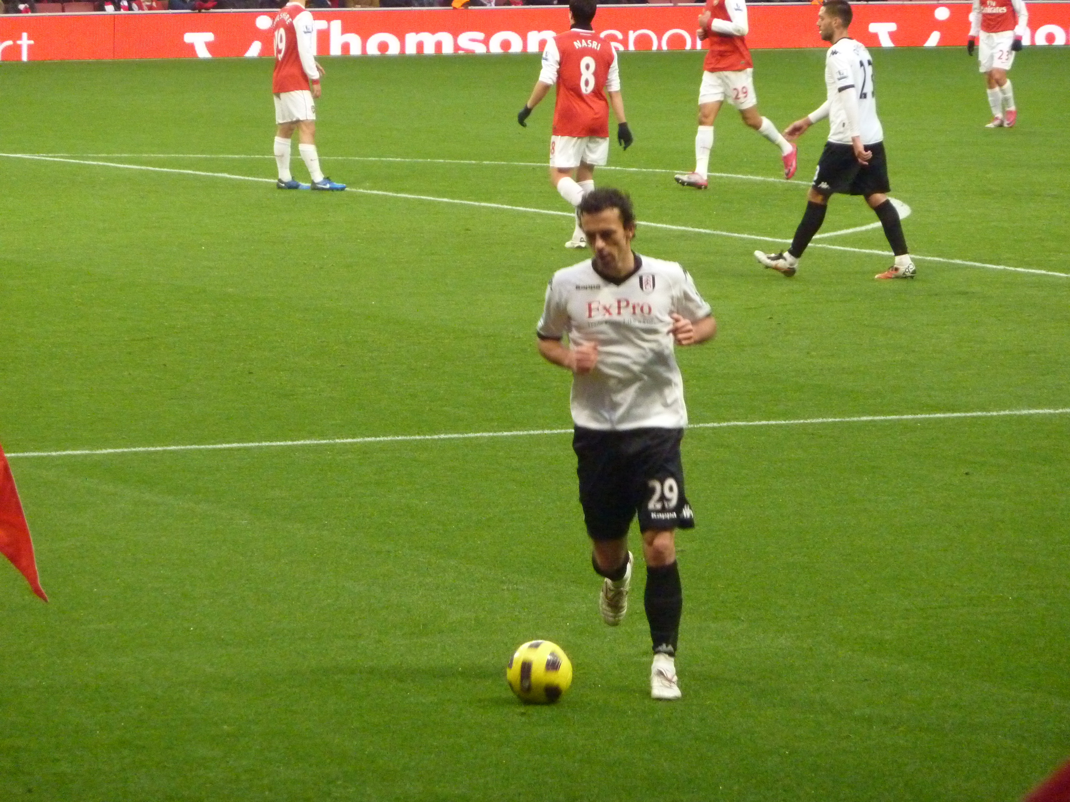 Simon Davies of Fulham